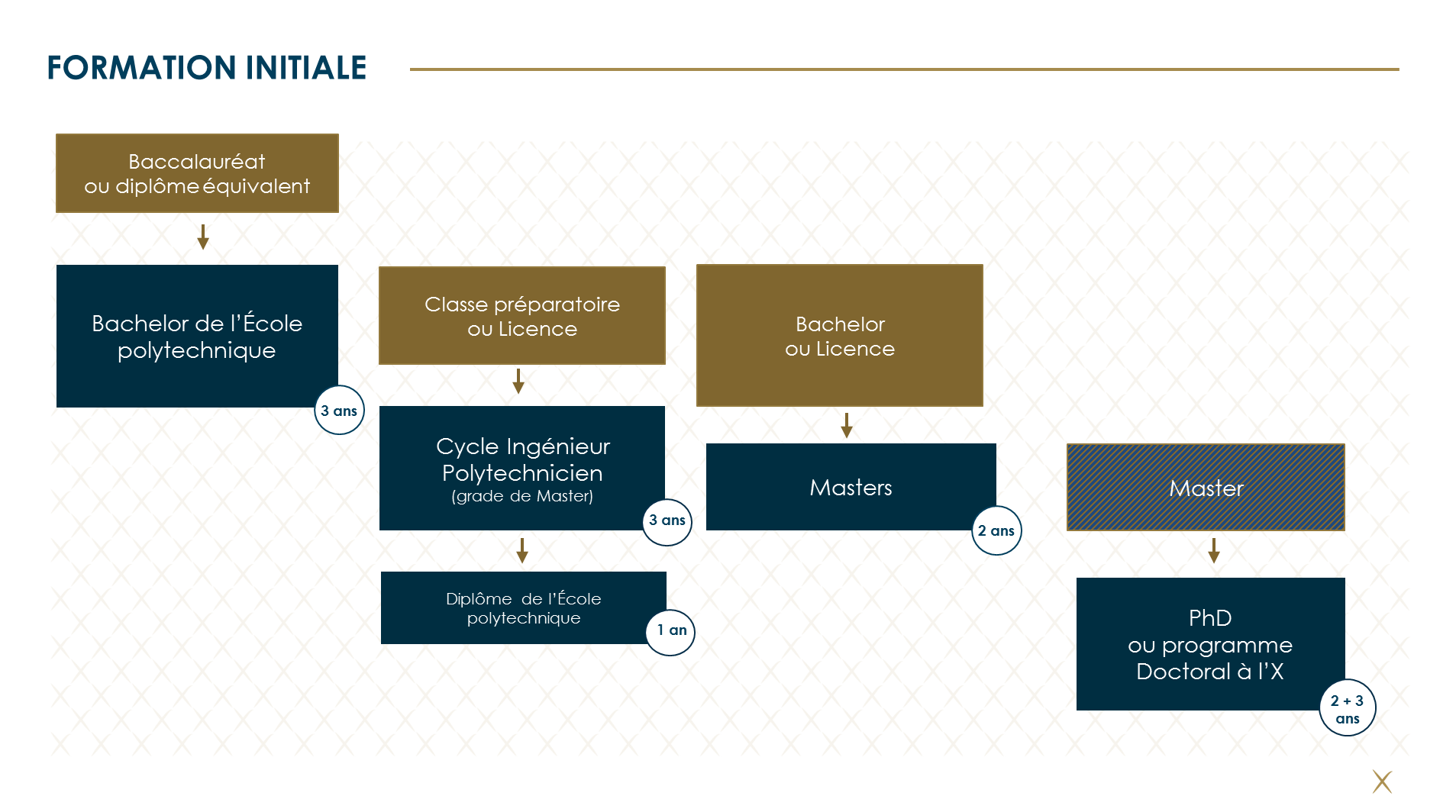 Training cycles